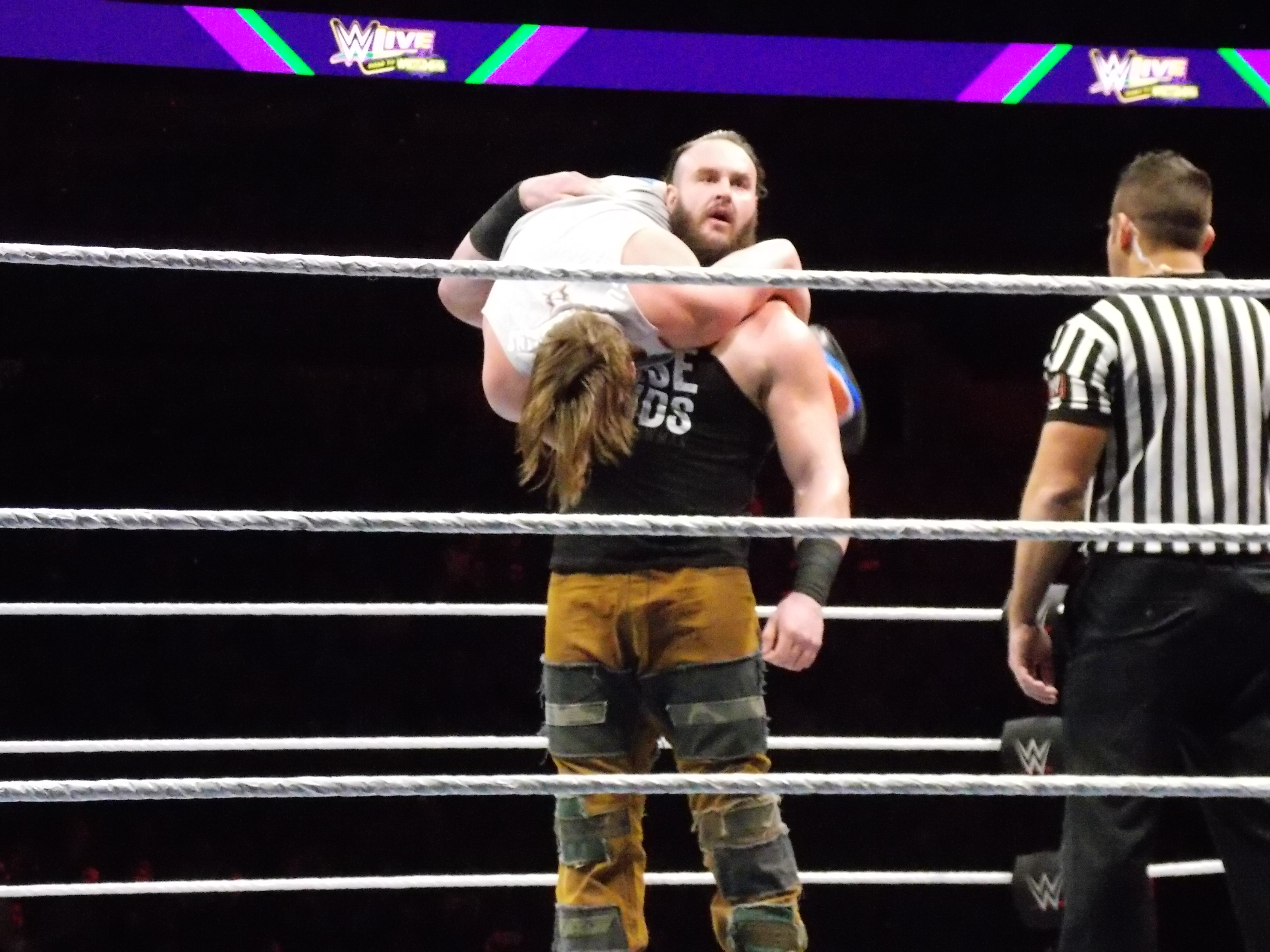 Curt Hawkins vs. Braun Strowman at a WWE Live Event House Show in Omaha, Nebraska, USA on Sunday, February 4, 2018